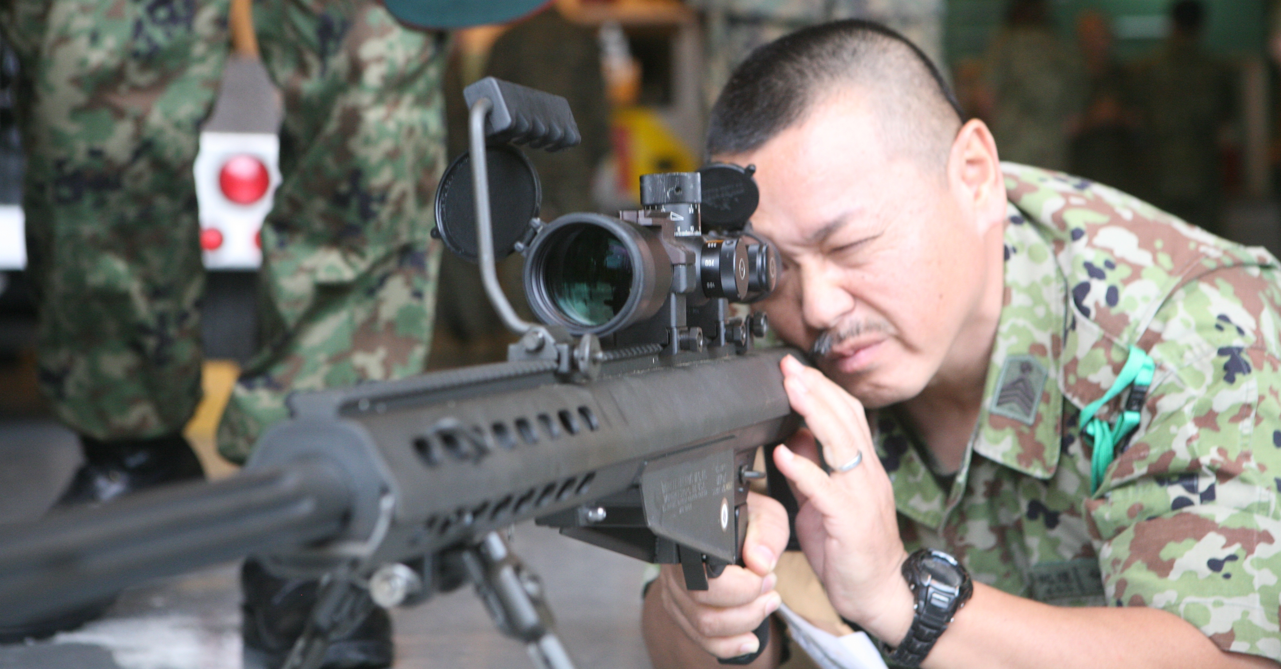 Sgt. Maj. Masaki Ando, an explosive ordinance disposal sergeant, looks through the scope of a special application scoped rifle during the explosive ordnance disposal study tour of the Camp Foster EOD detachment. The annual study tour allows the Marine Corps EOD and Japanese Ground Self-Defense Force EOD to share their techniques and improve interoperability. “Marine Corps EOD is entirely self-contained,” said Chief Warrant Officer Timothy H. Buckles, the officer in charge of the EOD detachment on Camp Foster. “They contain every department that a Marine Corps installation does.” Ando is part of the 101st EOD Unit, 15th Brigade, Western Army, Japanese Ground Self-Defense Force.